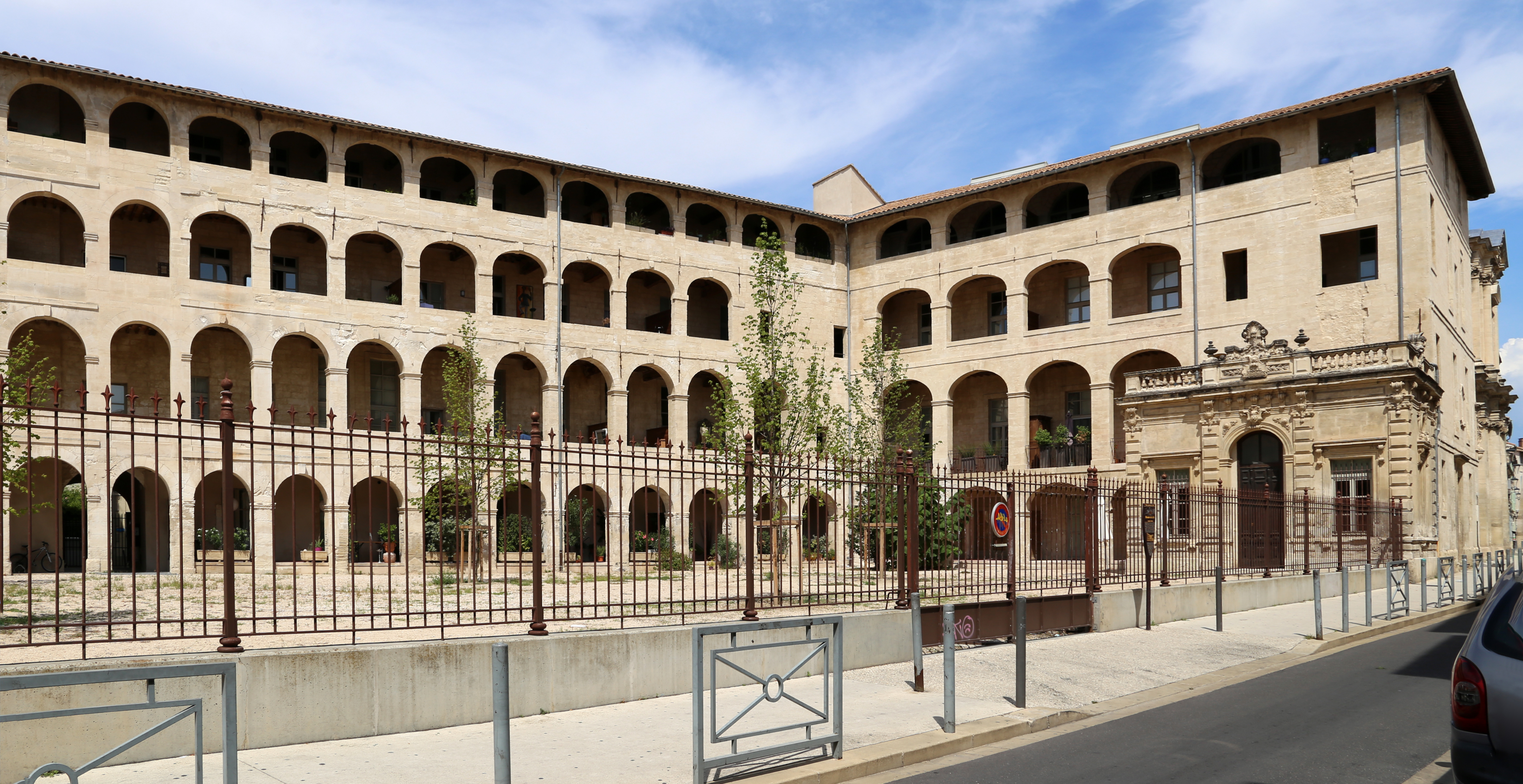 Monuments historiques in Avignon